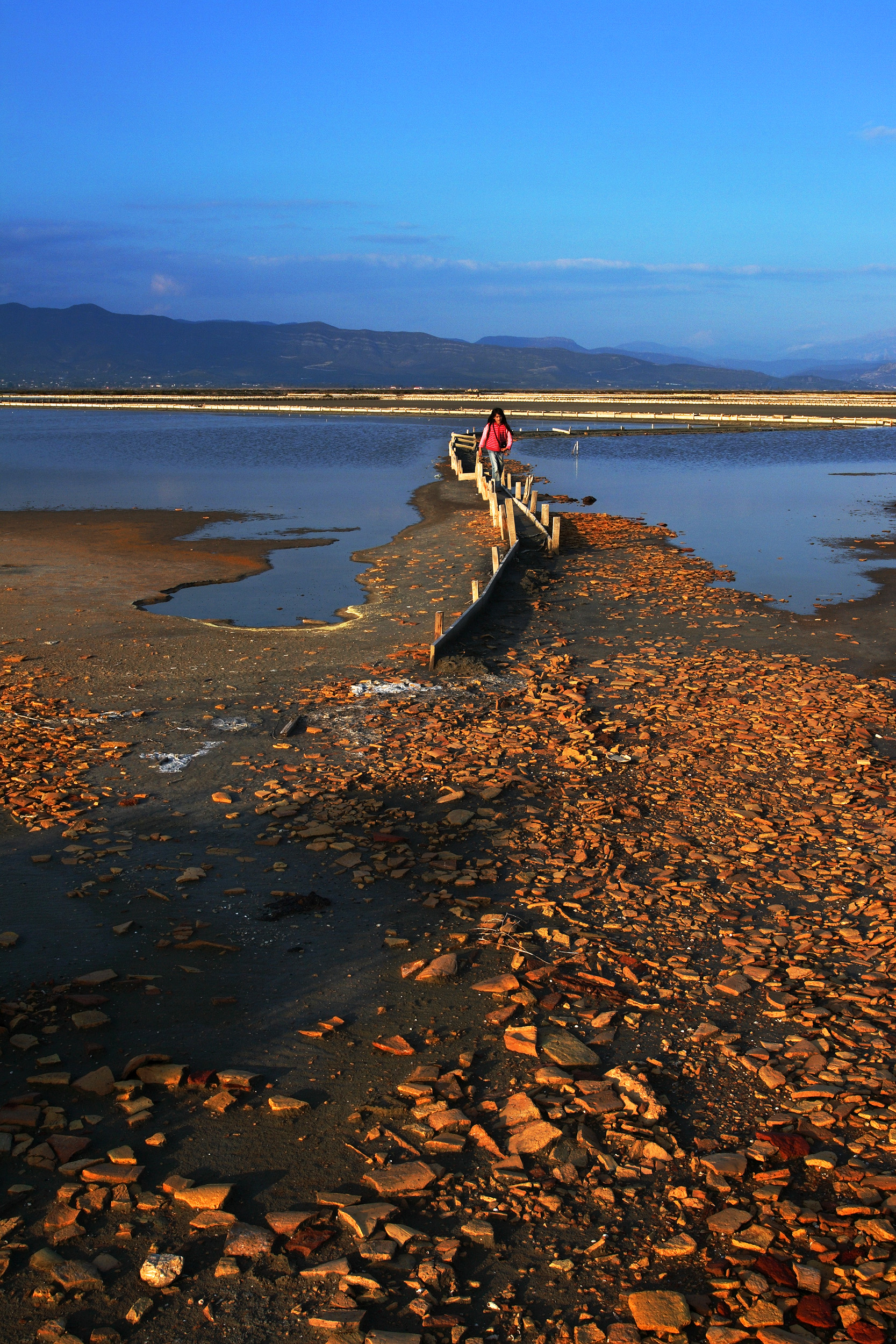 This is a photography of Natura 2000 protected area with ID GR2310001